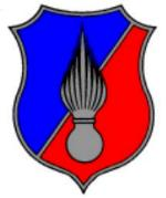 Crest Belgian Gendarmerie